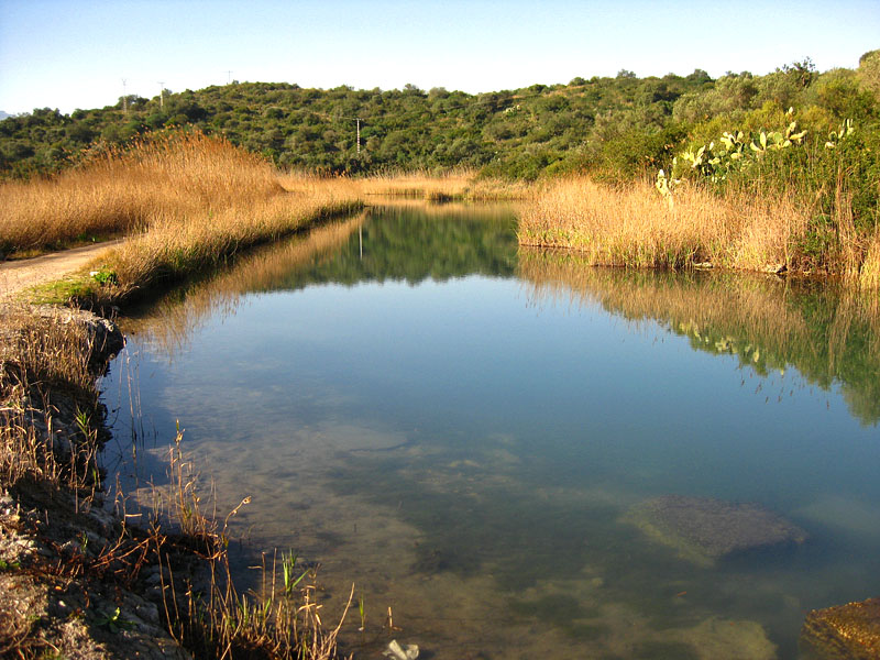 Riu Bullent, Pego, Marina Alta, País Valencià. River Bullent, Pego, County Marina Alta, Valencian Country.